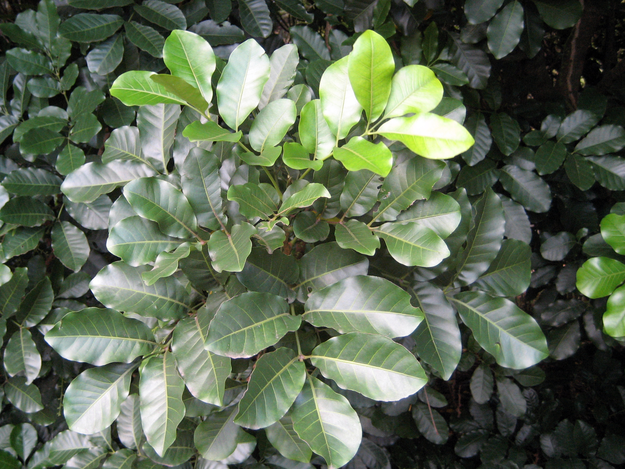 Dysoxylum spectabile, Kohekohe, foliage, Auckland, New Zealand